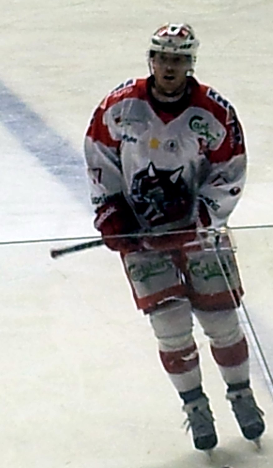 Alexander Egger wearing HC Bolzano jersey, during the 2011-2012 Coppa Italia final